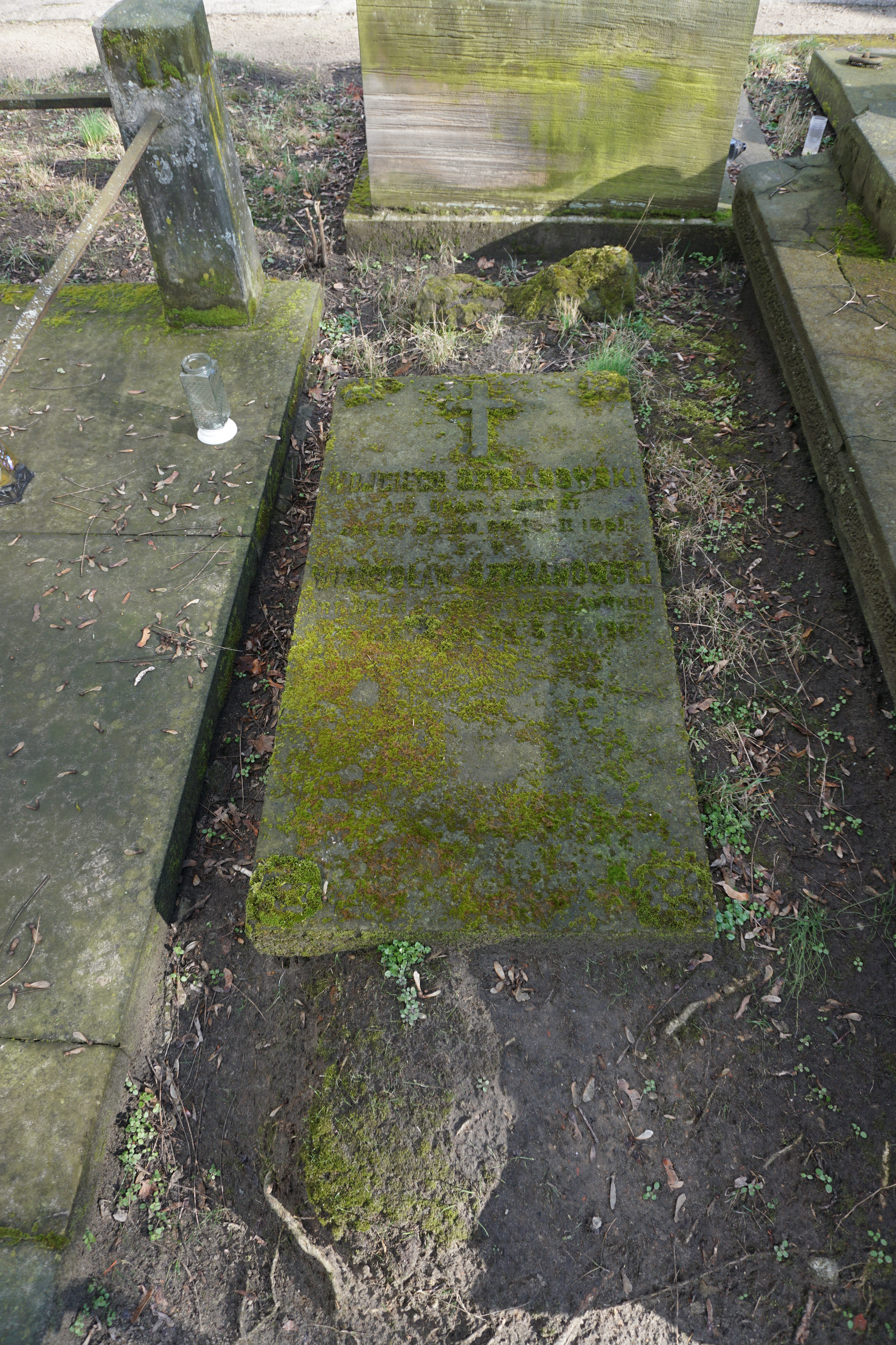 The grave of Władysław Szymanowski at the Powązki Cemetery (section 180, row 2, grave 26)